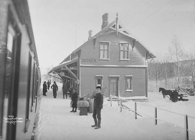 Skoger Station of the Vestfold Line, Norway